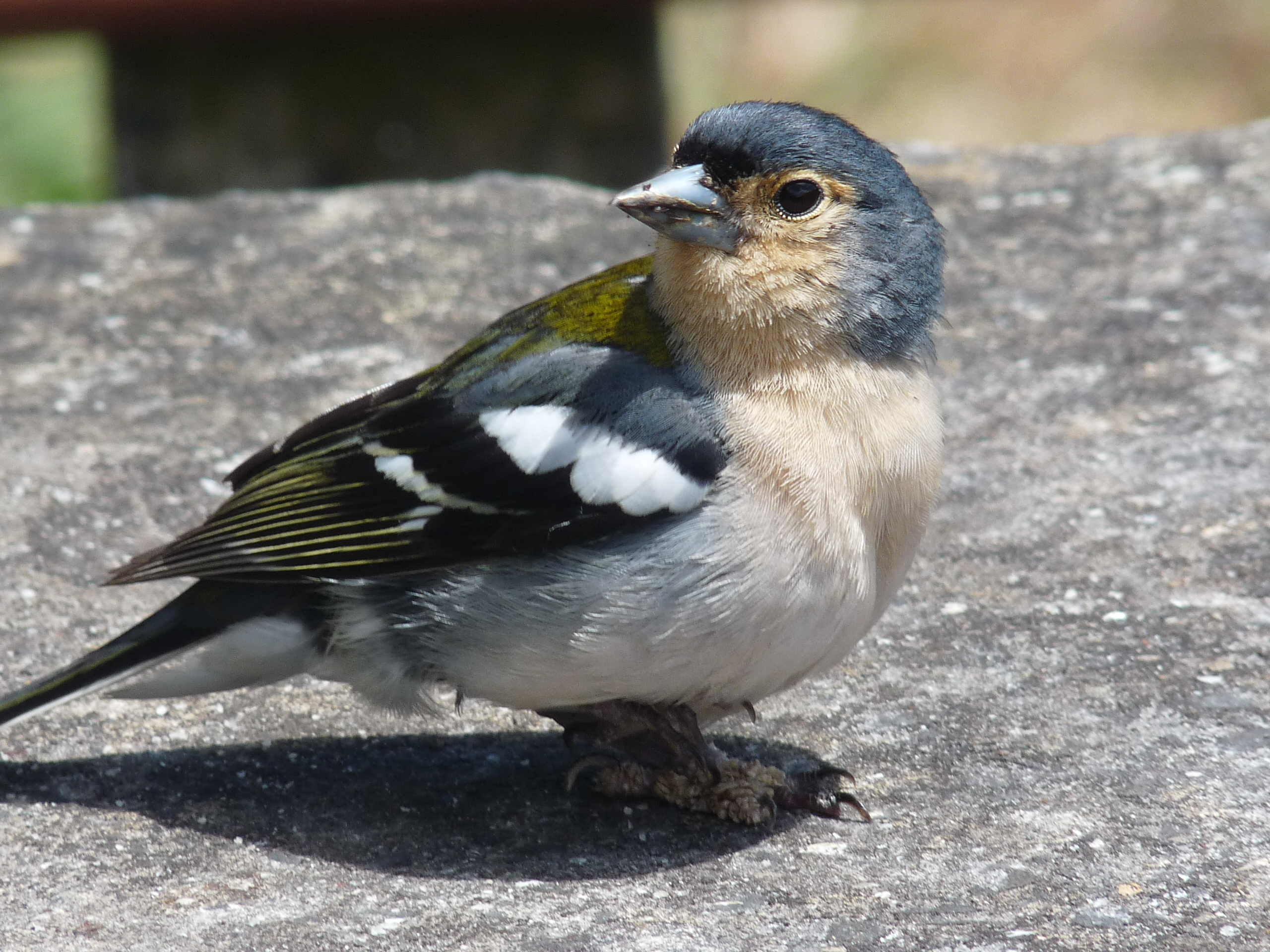 A Chaffinch on Madeira.